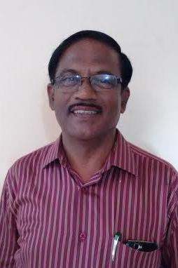 Pudukottai Muthunilavan புதுக்கோட்டை முத்துநிலவன்